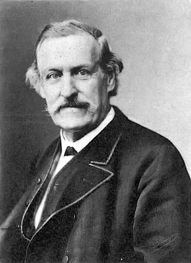 Pictured person: Wilhelm Kalliwoda